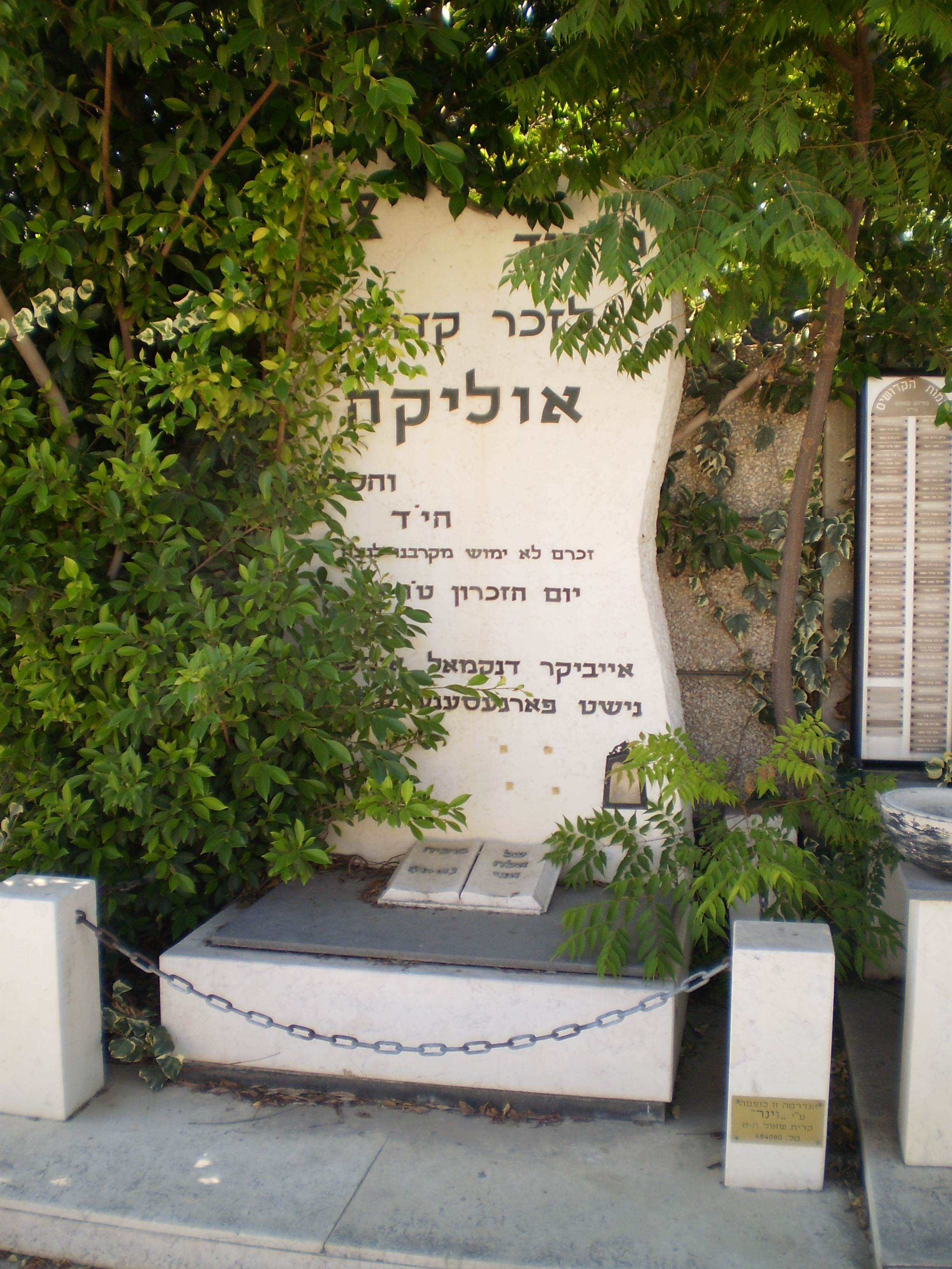 Ołyka Jewery Holocaust memorial at Holon Cemetery